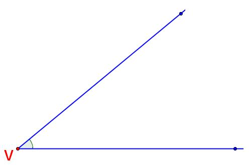 Angle with highlighted vertex